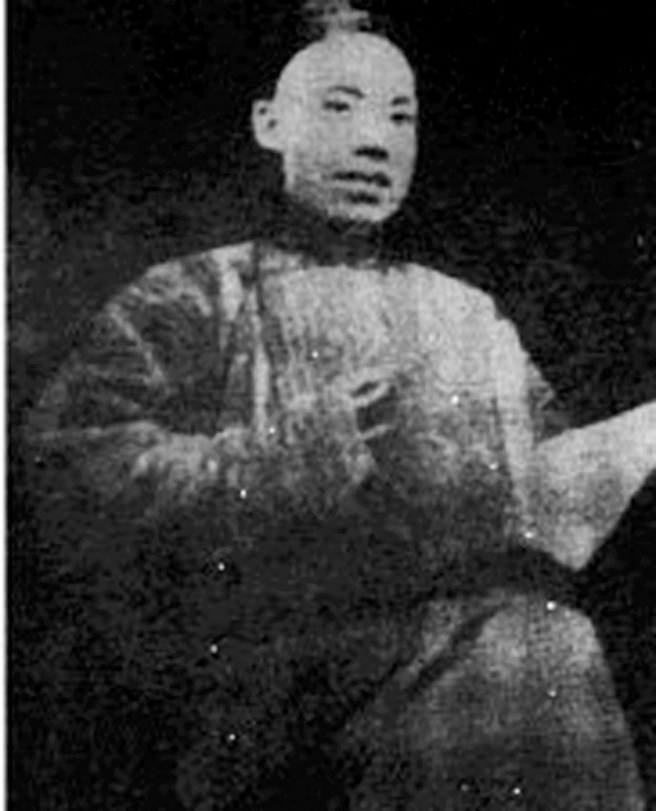 Yang Shenxiu, politician of late Qing Dynasty who played an important role in the Hundred Days' Reform.